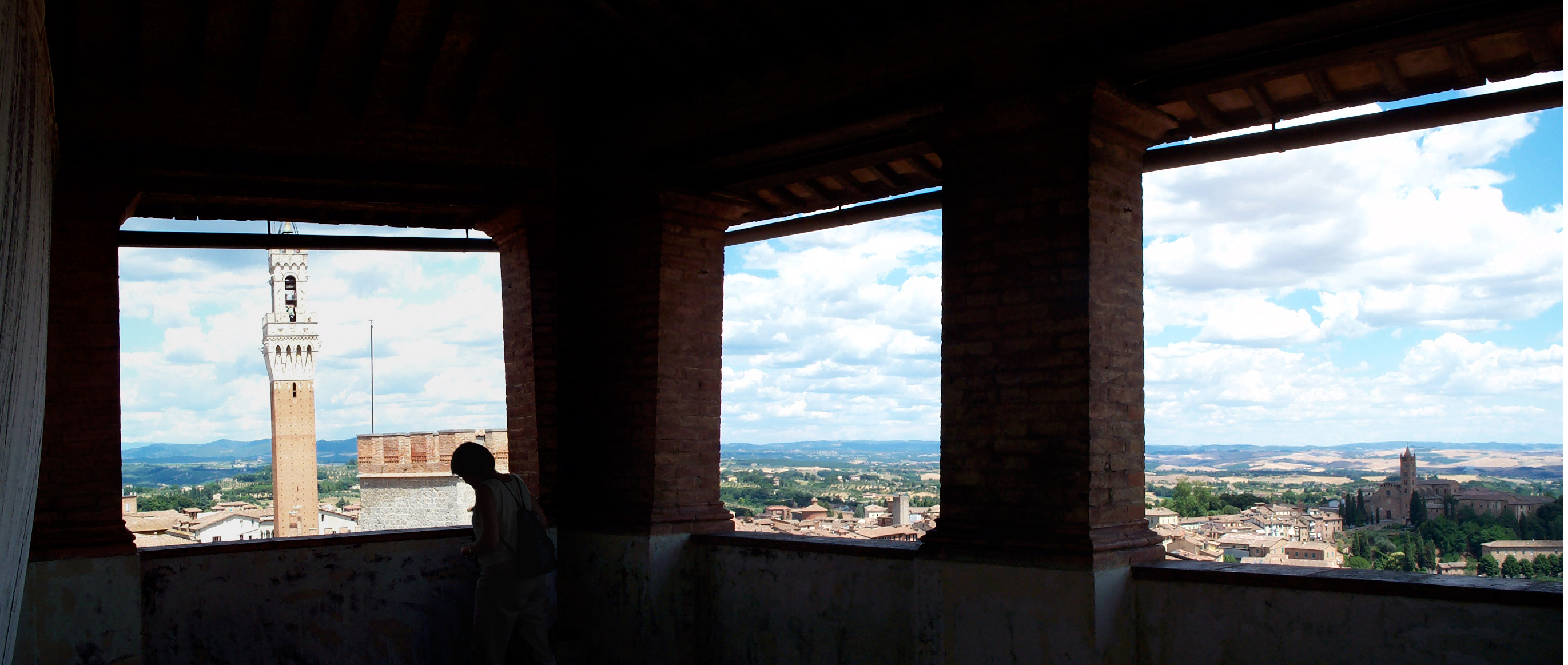 panoramic view (composed) of Siena from loggia di palazzo delle papesse